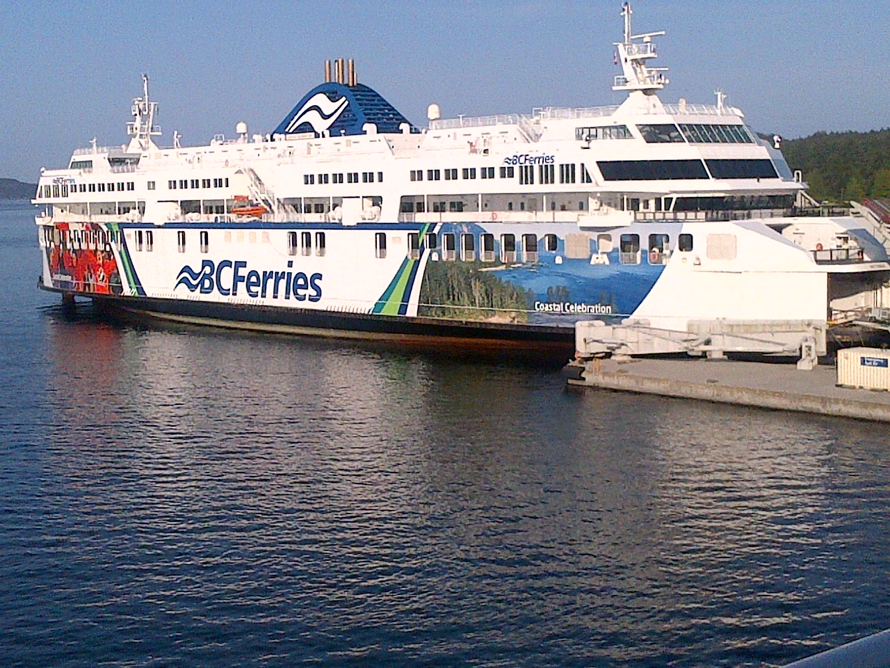 BC Ferries MV Coastal Celebration docked at Swartz Bay, British Columbia terminal in May 2014.